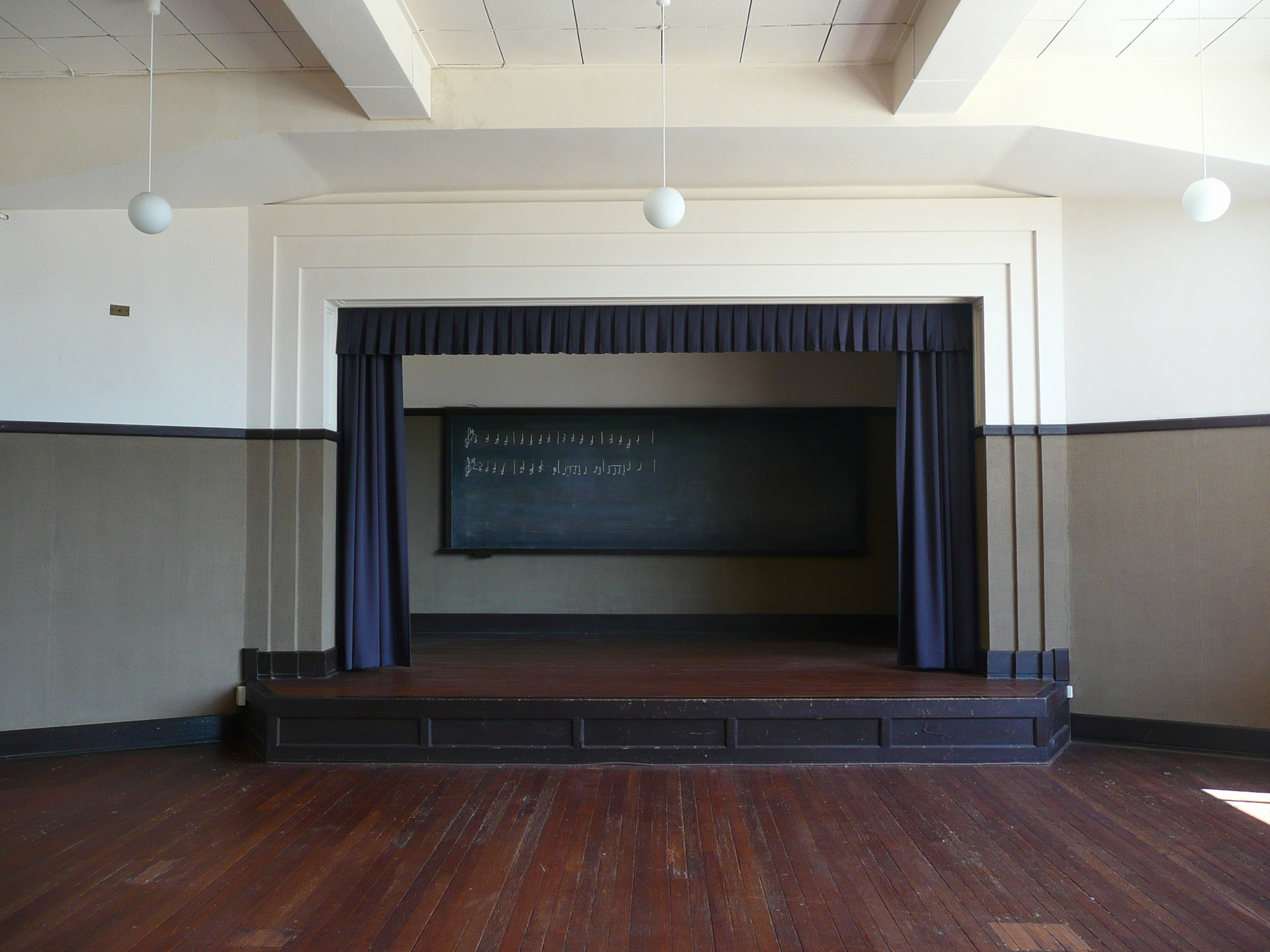 Toyosato Elementary School - Music Room